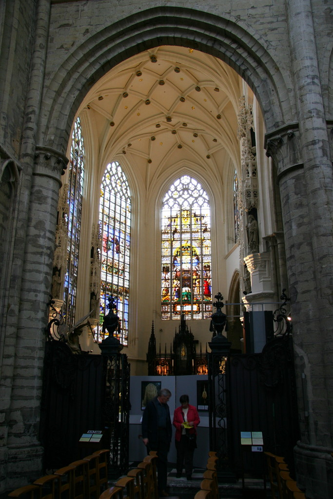 Entrance of the Saint-Sacrament chapel, in the St. Michael and Gudula cathedral in Brussels